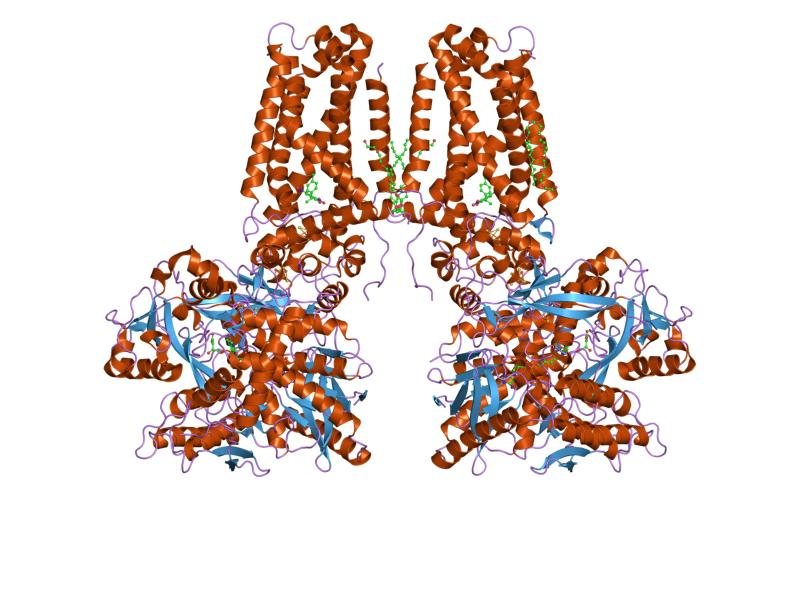 Cartoon representation of the molecular structure of protein registered with 1kfy code.